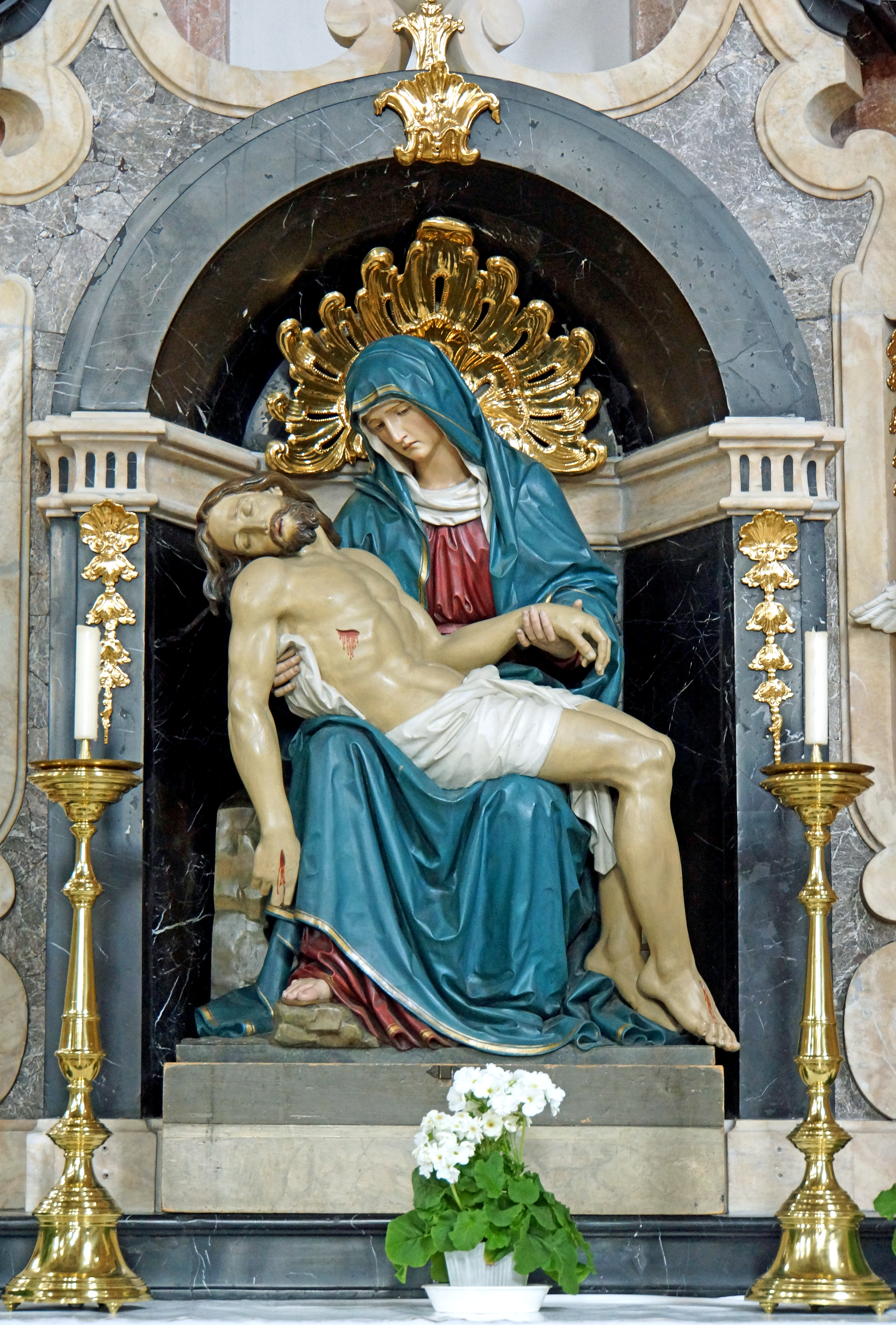 Innsbruck Cathedral also know as the Cathedral of St. James is dedicated to the apostle Saint James, son of Zebedee. The cathedral was built between 1717 and 1724 on the site of a twelfth-century Romanesque church.